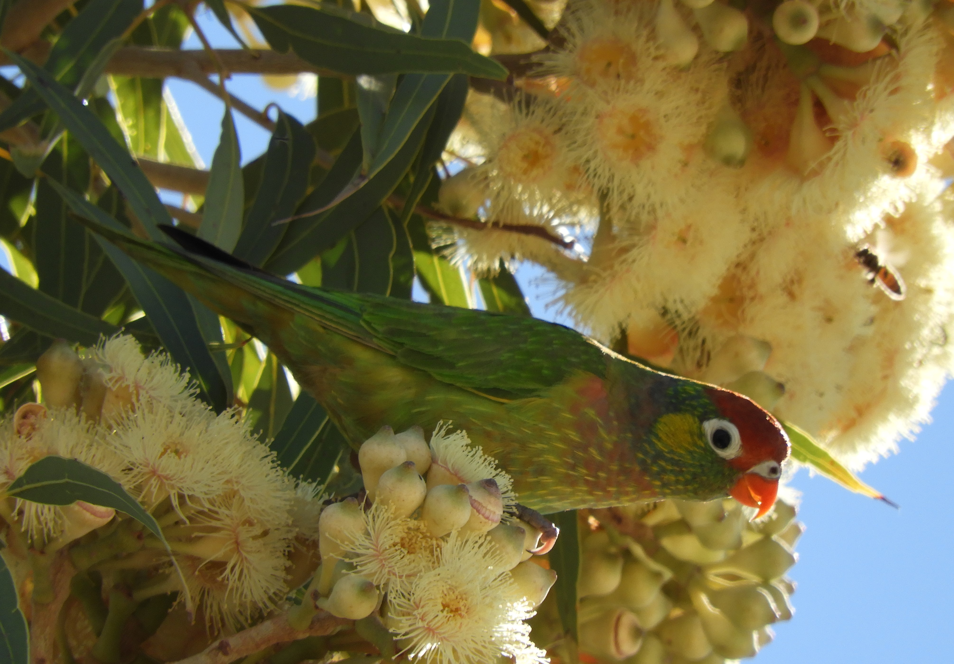 Photo taken at Discovery Caravan Park at about 1pm